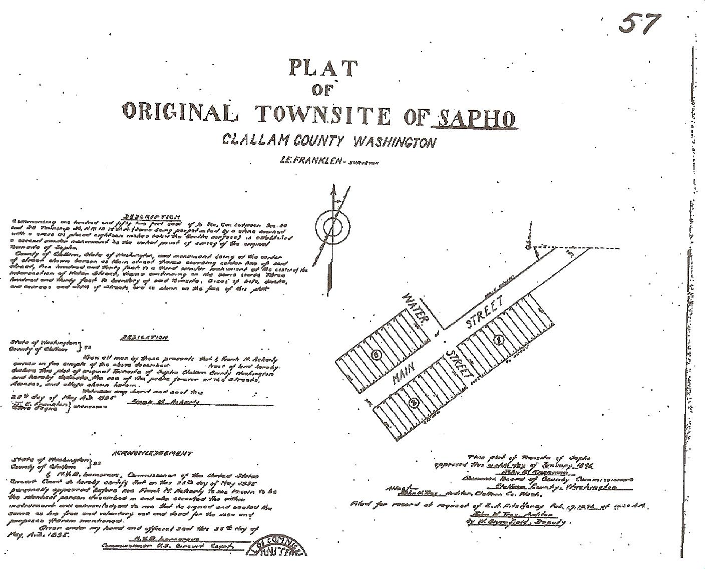 Original Homestead document of Sappho, Washington